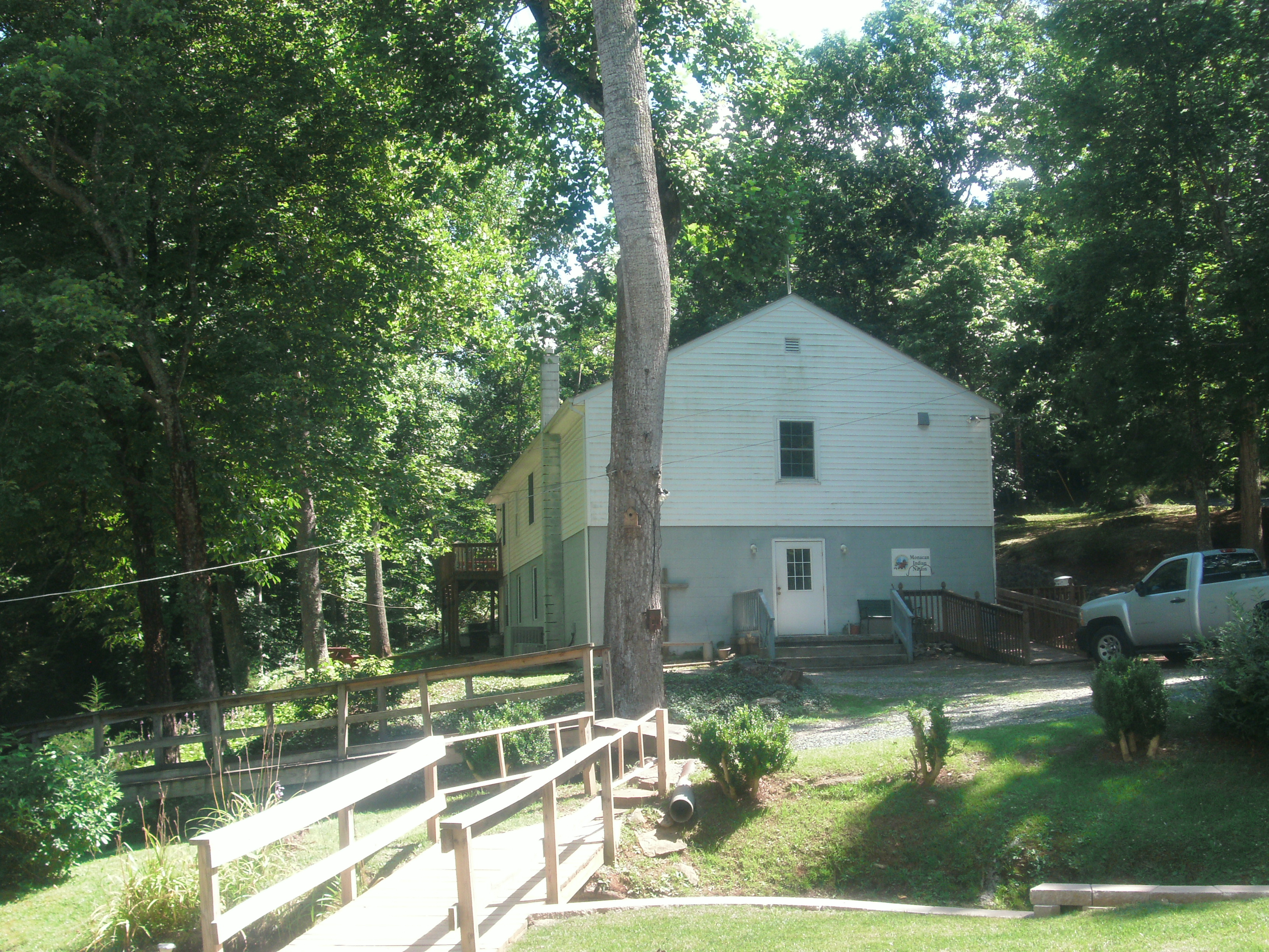 Near Bear Mountain Indian Mission School, near Amherst, Virginia